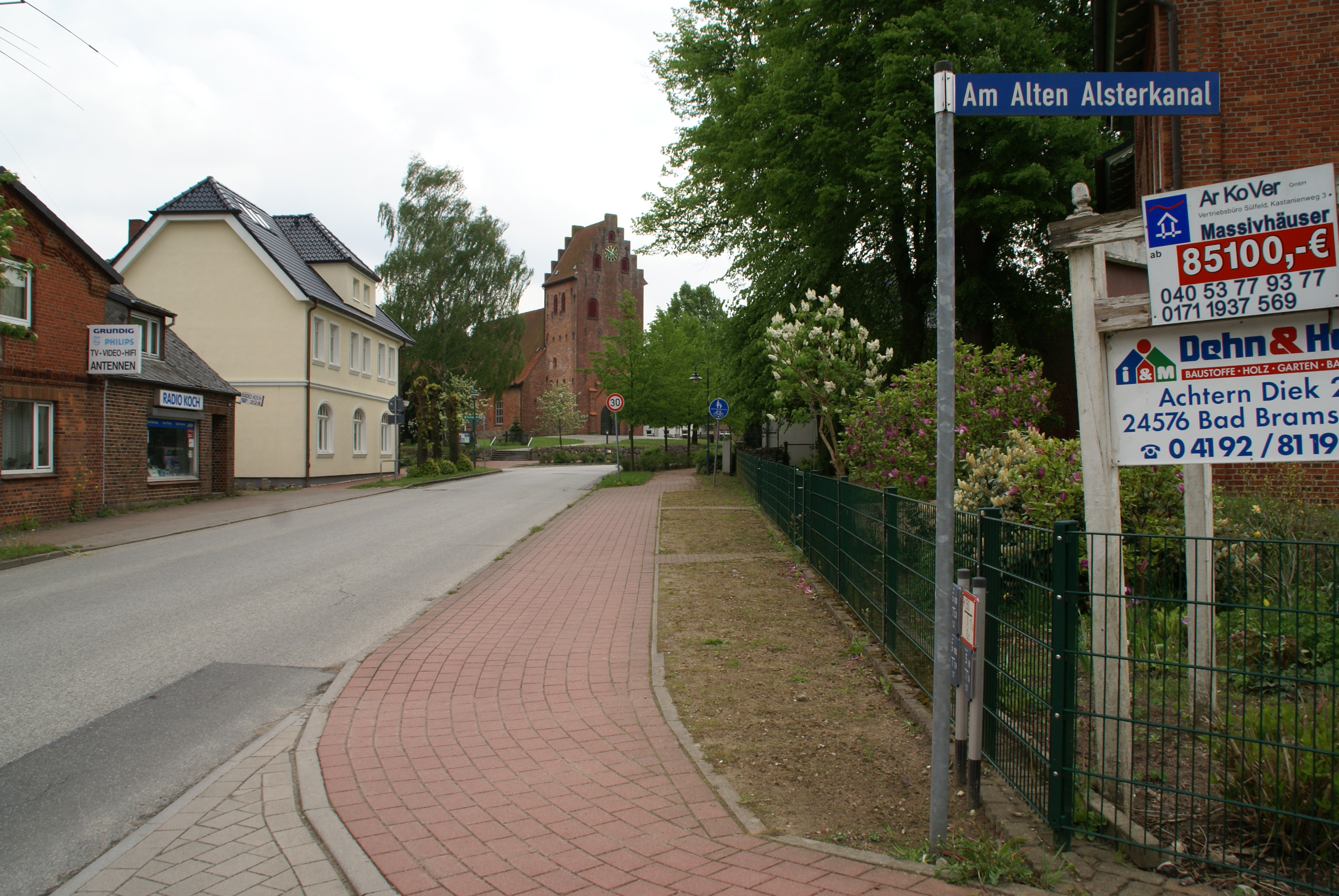 Sülfeld, Germany: Panorama from de street Am alten Alsterkanal